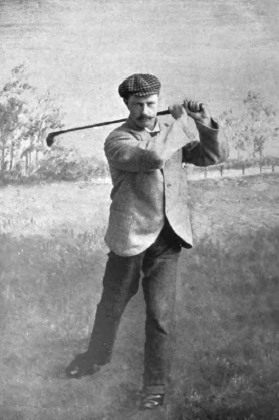 Archie Simpson in the following through, circa 1895